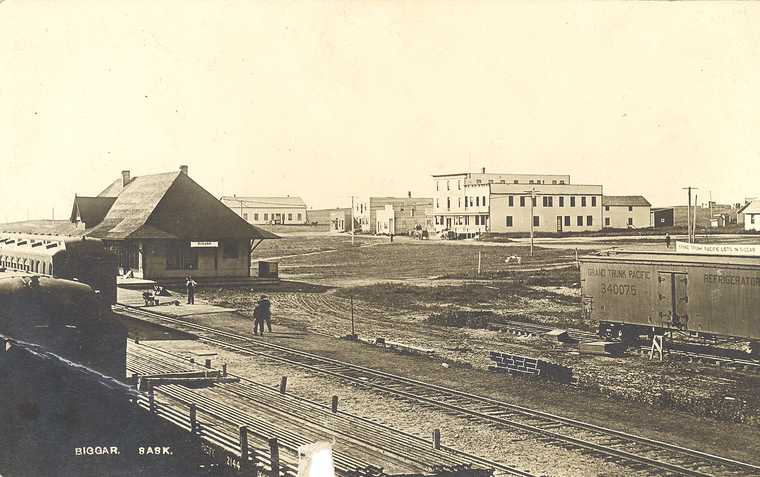 Scope and content Monotone postcard showing the Grand Trunk Pacific railway station and yard at Biggar, Saskatchewan. Buildings visible in background. Physical description/extent 1 postcard; 8.5 x 13.5 cm Date produced [190-] Date Range(s) 1900-1909 Copyright holder Public domain